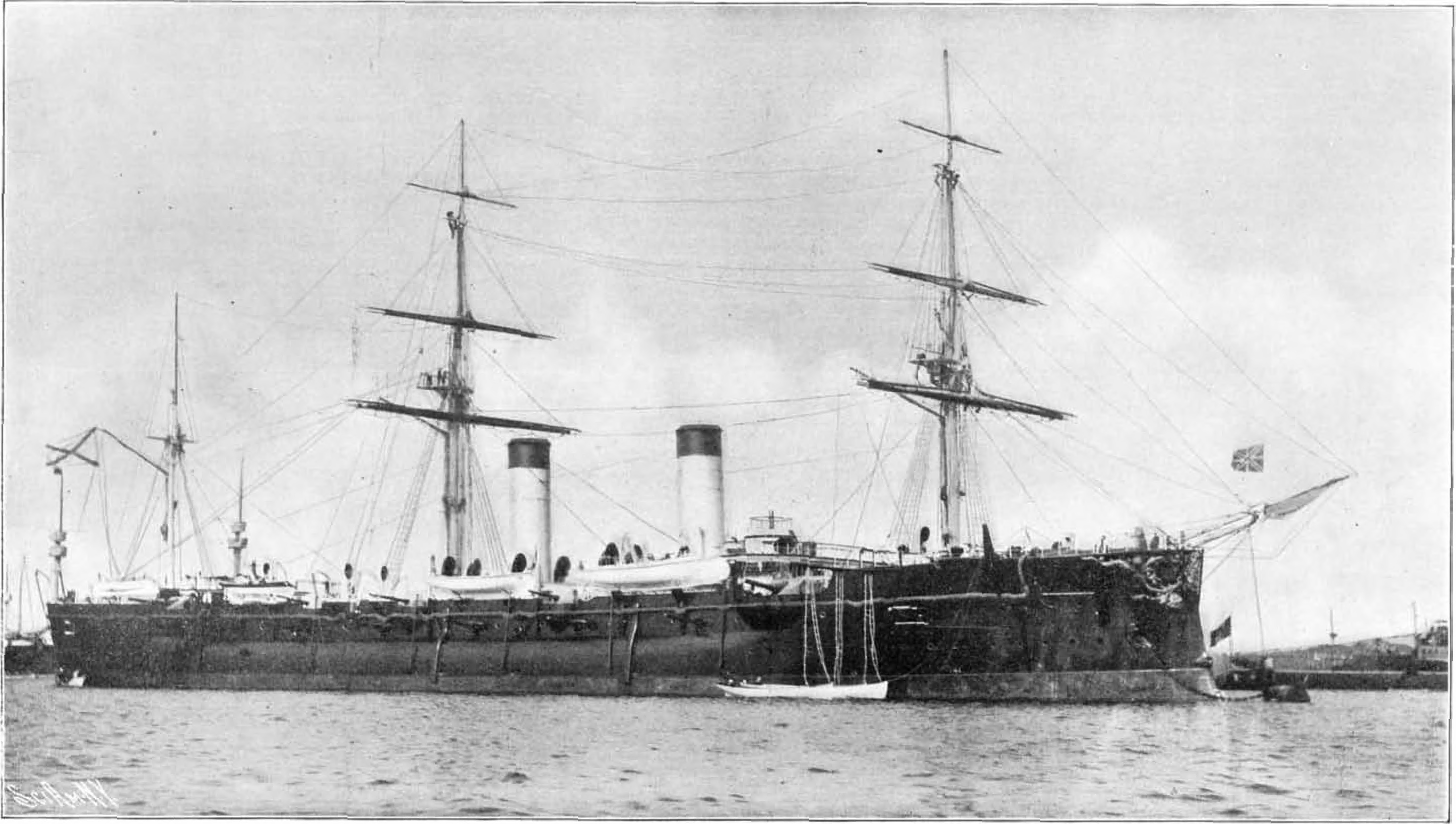 Title: Scientific American Volume 91 Number 09 (August 1904) Year: 1904 (1900s) Authors: Subjects: scientific portland cement american exhibit munn louis electric portland cement scientific american trunk pacific ten years american august average speed war department typewriting machine glass models grand trunk Publisher: View Book Page: Book Viewer About This Book: Catalog Entry View All Images: All Images From Book Click here to view book online to see this illustration in context in a browseable online version of this book. Text Appearing Before Image: f^SW Displacement, 12,500 tone. Speed, 20.25 knots. Coal Supply, 2,500 tone and liquid fuel. Armor: Belt, 10 inches to 5 inches, tipper belt, 4 inches, casemates 2 inches, screens, 2 inches. Arm anient, four 8-inch, flixteen 5.5-inch, twelve 3-inch, 36 smaller guns. Torpedo tubes, 6 above water. Complement, 735. ARMORED CRUISER ROSSIA, SEVERELY DAMAGED IN THE KOREA STRAIT ENGAGEMENT. Text Appearing After Image: Displacement, 10,950 tons. Speed, 18.8 knots. Coal Supply, 2,000 tons. Armor: Belt, 10 inches to 5 inches; deck, 2% inches; sponsons, 2 inches. Armament: four 8-inch, sixteen 5.5-inch; six 4.7-inch, 22 small guns. Torpedo tubes, 6 above water. Complement, 727. RUSSIAN ARMORED CRUISER RURIK » SUNK IN THE KOREA STRAIT ENGAGEMENT. The Russian squadron was composed of three largearmored cruisers, of which the oldest, the Rurik, ofabout 11,000 tons displacement, was notable as havingbeen the progenitor of the big, powerful, and fast ar-mored cruisers which have become so popular in thepresent day. The Rurik, built in 1892, must becalled an old vessel; for her guns were of short caliberand low velocities; her speed, originally between 18and 19 knots, had dropped to 15 knots or under (fornot being wood-sheathed and coppered she naturallyfouled rather quickly); her armor belt extended only the water-line, and composed of Harvey steel of amaximum thickness of 10 inches. The Gromoboi,built in